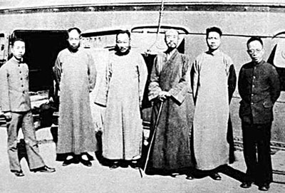 Xia Mianzun and Li Shutong in Shnaghai